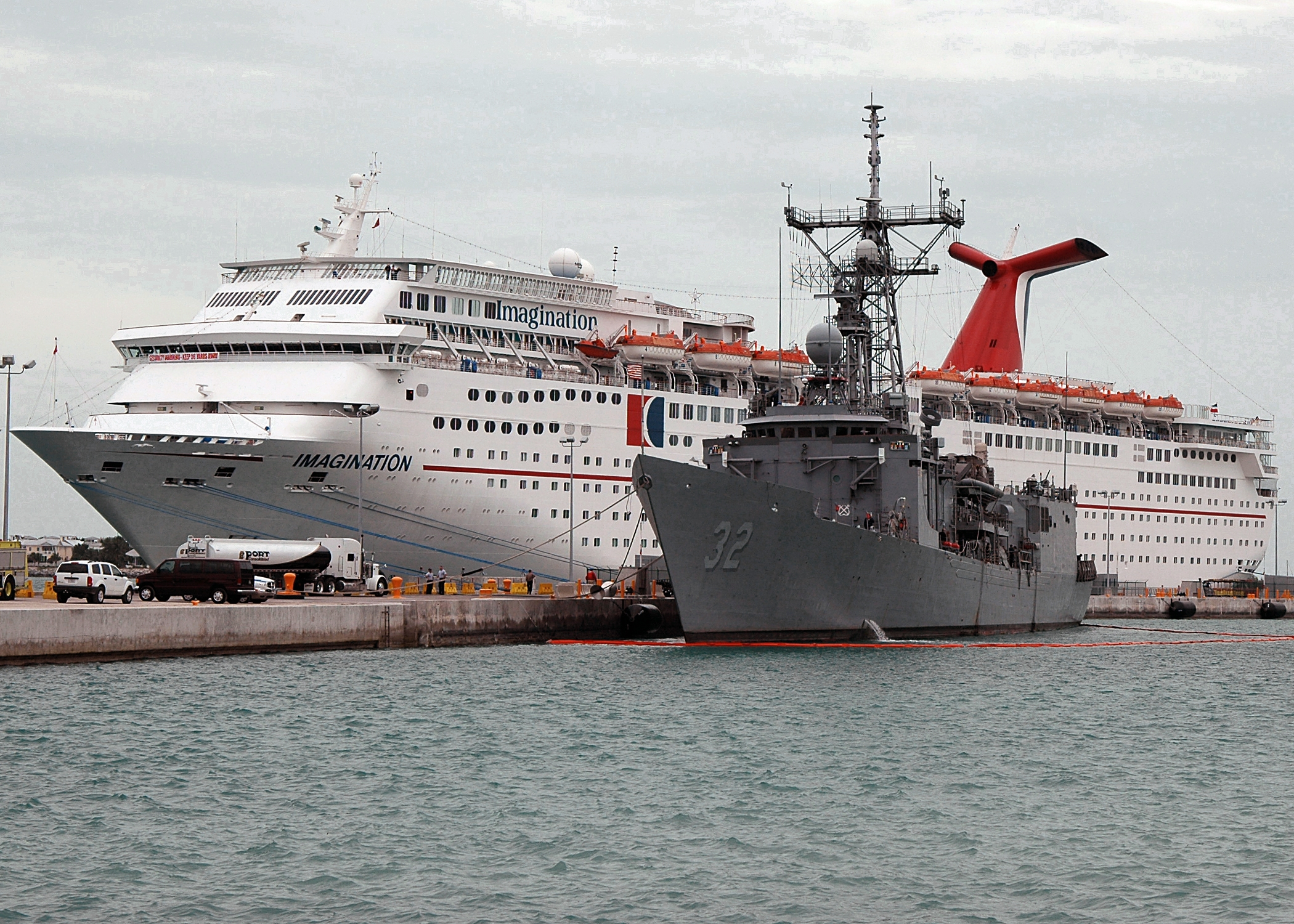 Key West, Fla. (Dec. 17, 2004) - USS John L. Hall (FFG-32) sits moored at the Outer Mole Pier in Key West, Fla., opposite the Carnival cruise ship "Imagination." John L. Hall became the first Navy ship to moor at the Navy pier following a $13 million pier renovation project. Under a special agreement with the city of Key West, the Navy Mole Pier can be used to moor cruise ships on a not to interfere basis. USS John L. Hall made a port visit to Key West following a six month counter narcotics deployment. U.S. Navy photo by Journalist 1st Class Trice Denny (RELEASED)